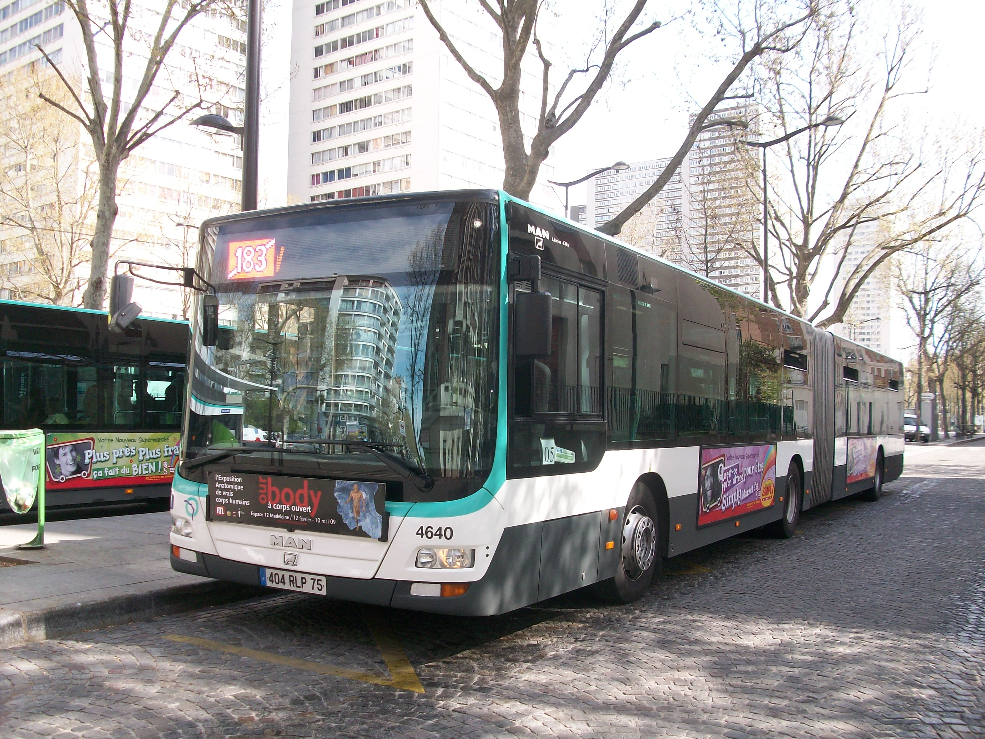 MAN NG 313 Lion's City G bus (#4640) in Paris, France. Built 2009, RATP Paris operator.